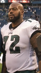 Philadelphia Eagles offensive tackle Tra Thomas posing for a picture after the game against the Seattle Seahawks on November 2, 2008 at Qwest Field.